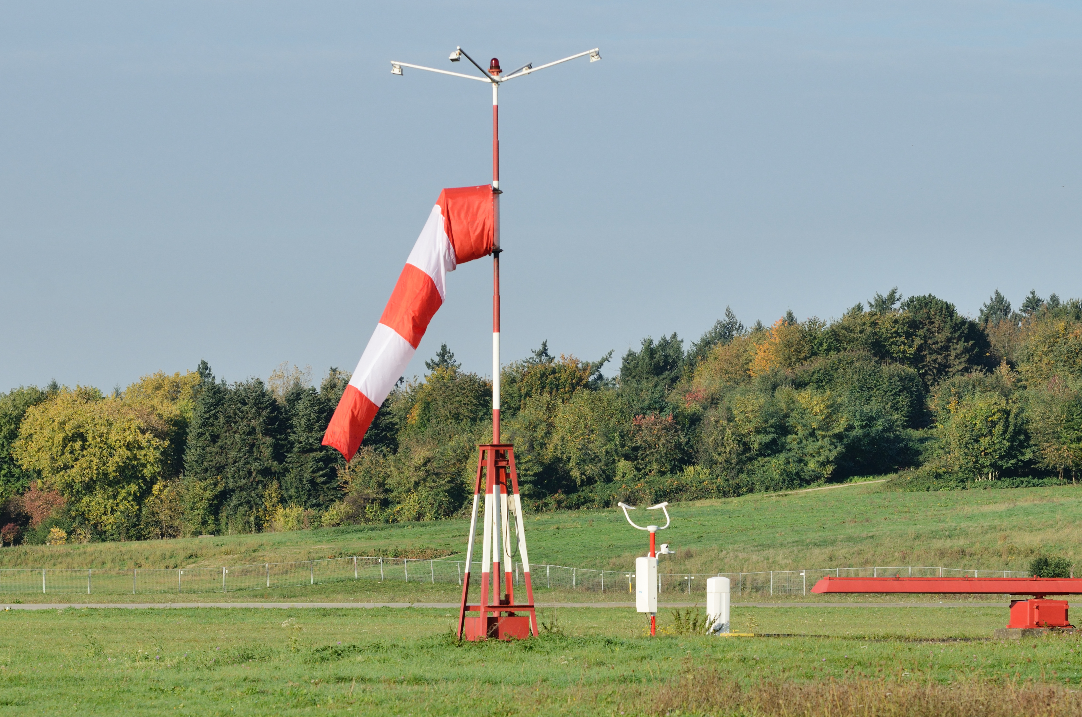 Aerodrome Freiburg/ Breisgau: windsock